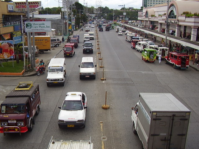 view to the lane near victoria plaza davao